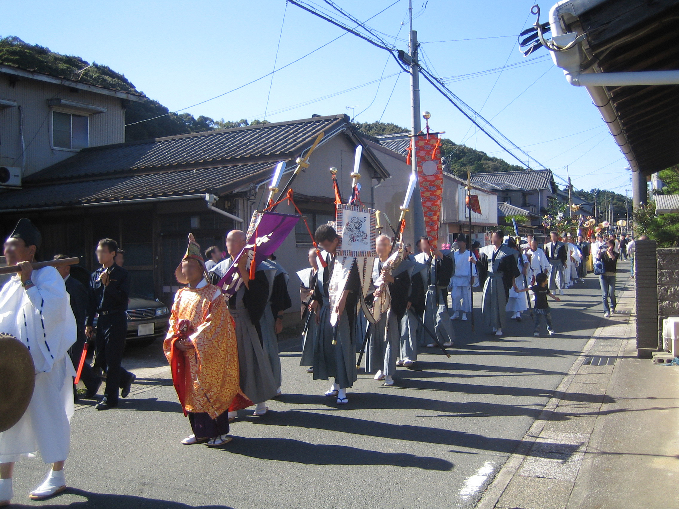 大名行列の再現。愛知県音羽町 Reappear of the daimyo's procession (大名行列), in Otowa, Aichi, Japan